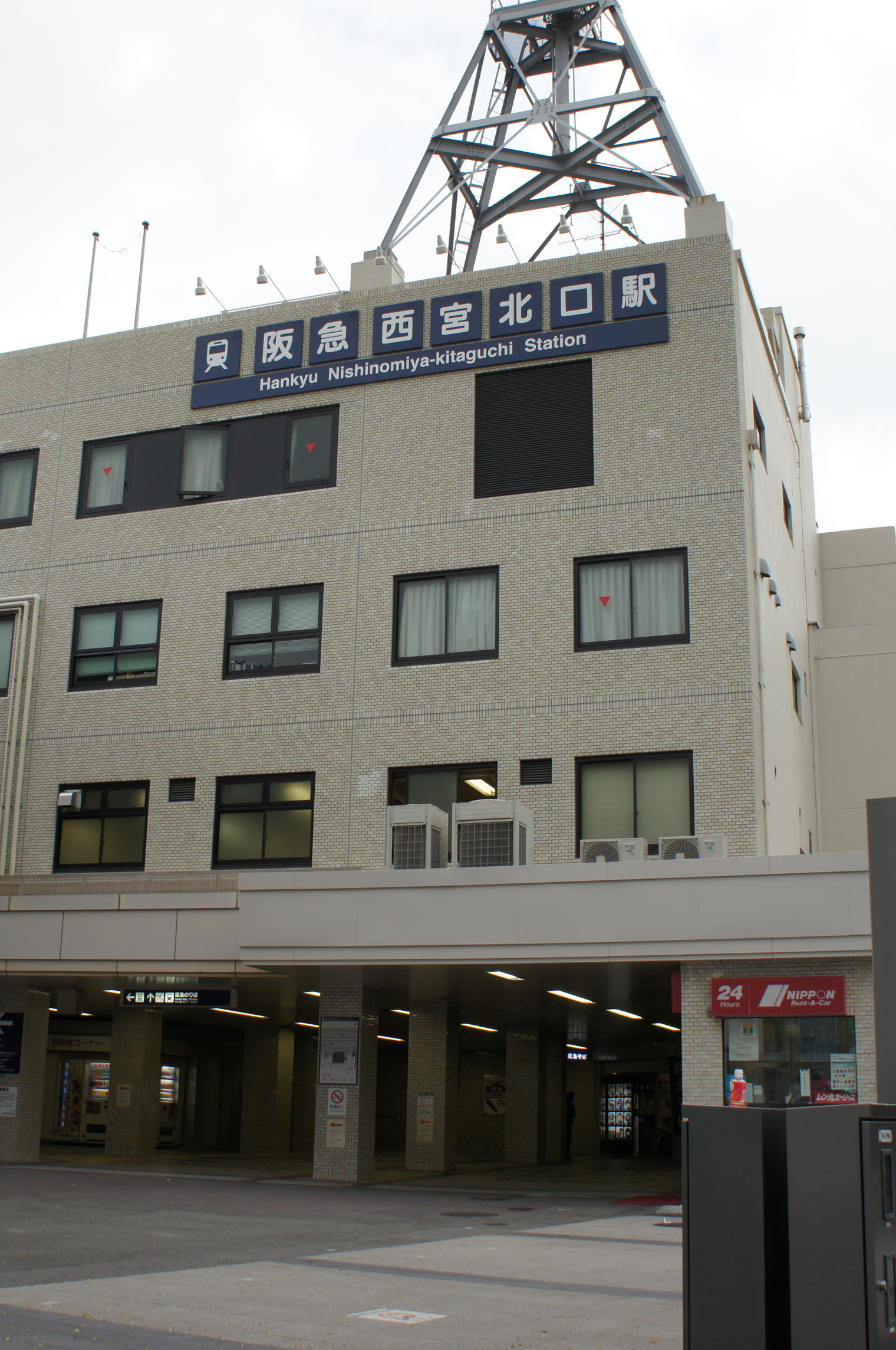 Hankyu Nishinomiya-Kitaguchi sta. SouthEast Entrance